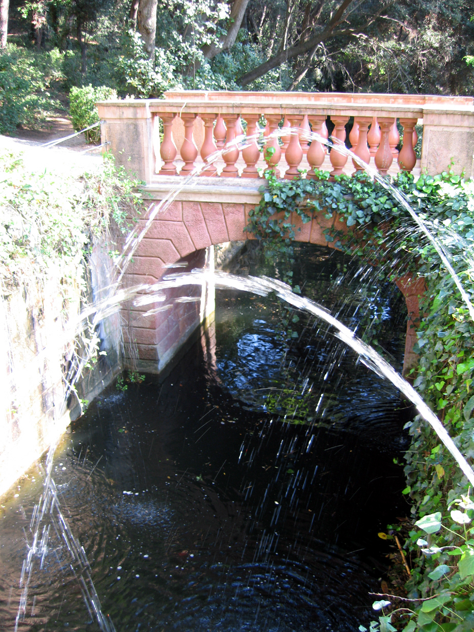 Parc del Laberint d’Horta in Barcelona (Catalonia).